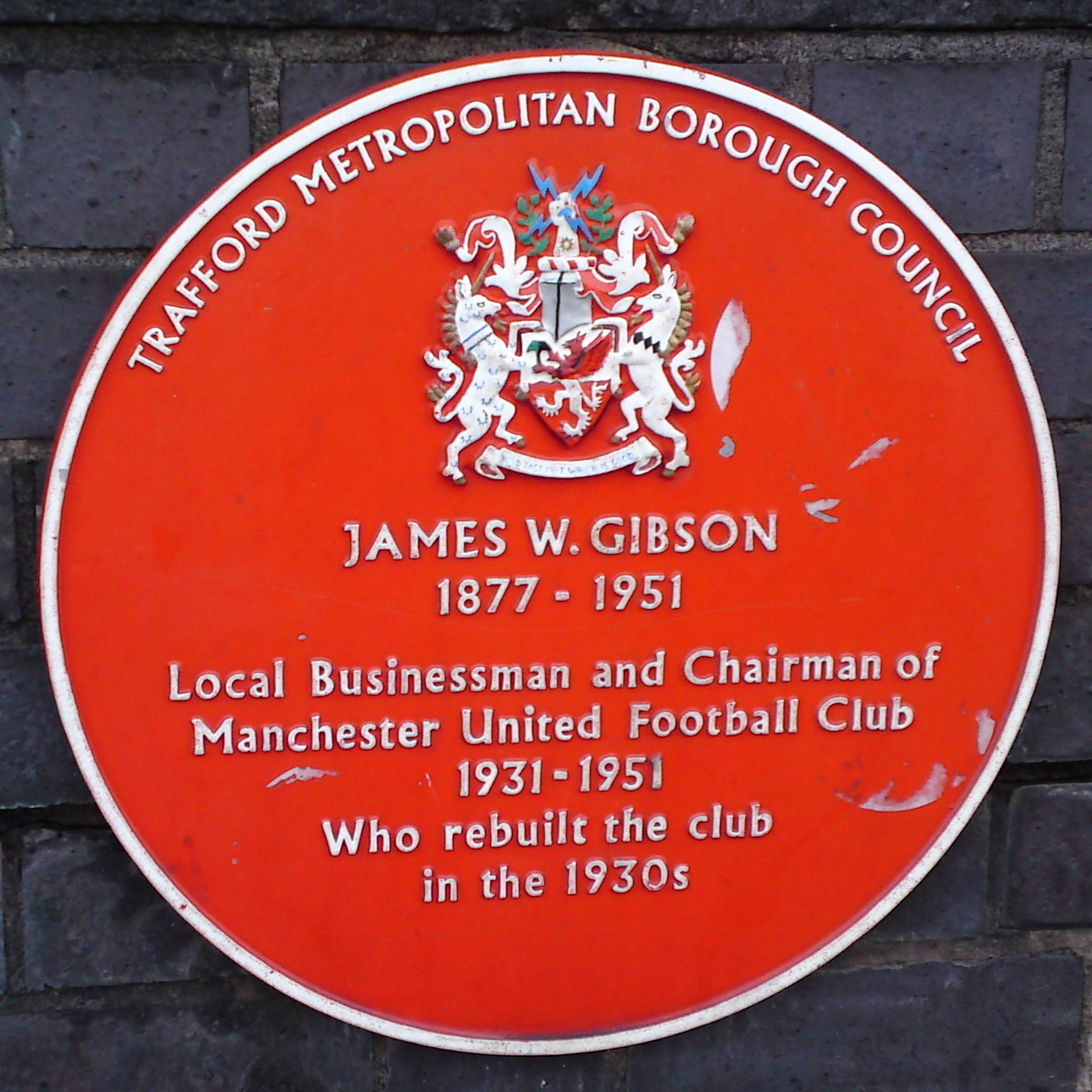 A plaque attached to the bridge over the railway on Sir Matt Busby Way commemorating the work of James W. Gibson, chairman of Manchester United from 1931 to 1951.